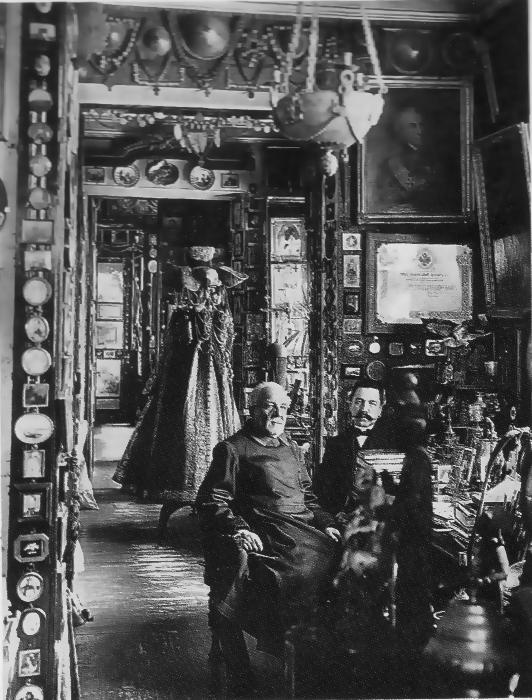 Russian collector Fedor Plushkin and his son with his enormous collection